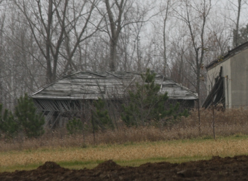 The Loreto Shrine Chapel in St. Nazianz, Wisconsin. It is listed on the National Register of Historic Places.